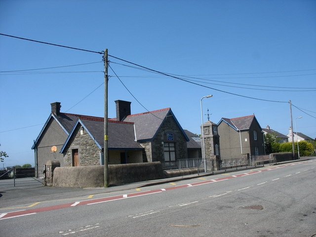 Ysgol Gymuned Rhosybol Community School